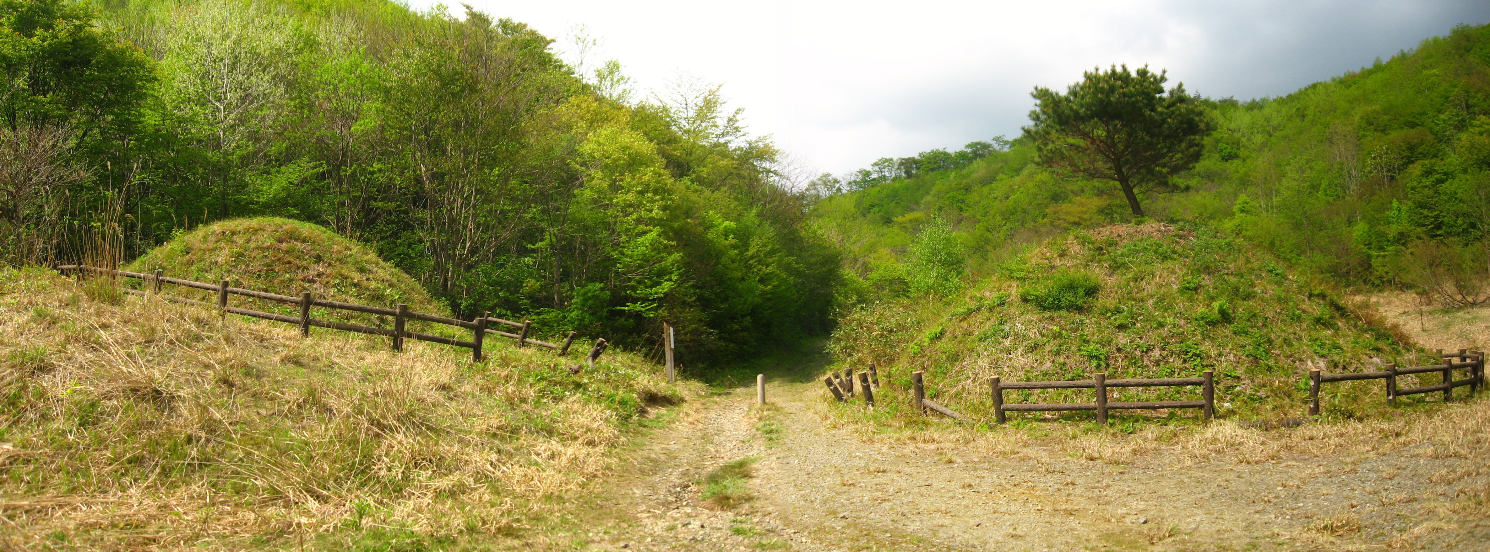 Ōuchi-tōge Ichirizuka on the Shimotsuke Kaidō in Shimogō, Fukushima, Japan